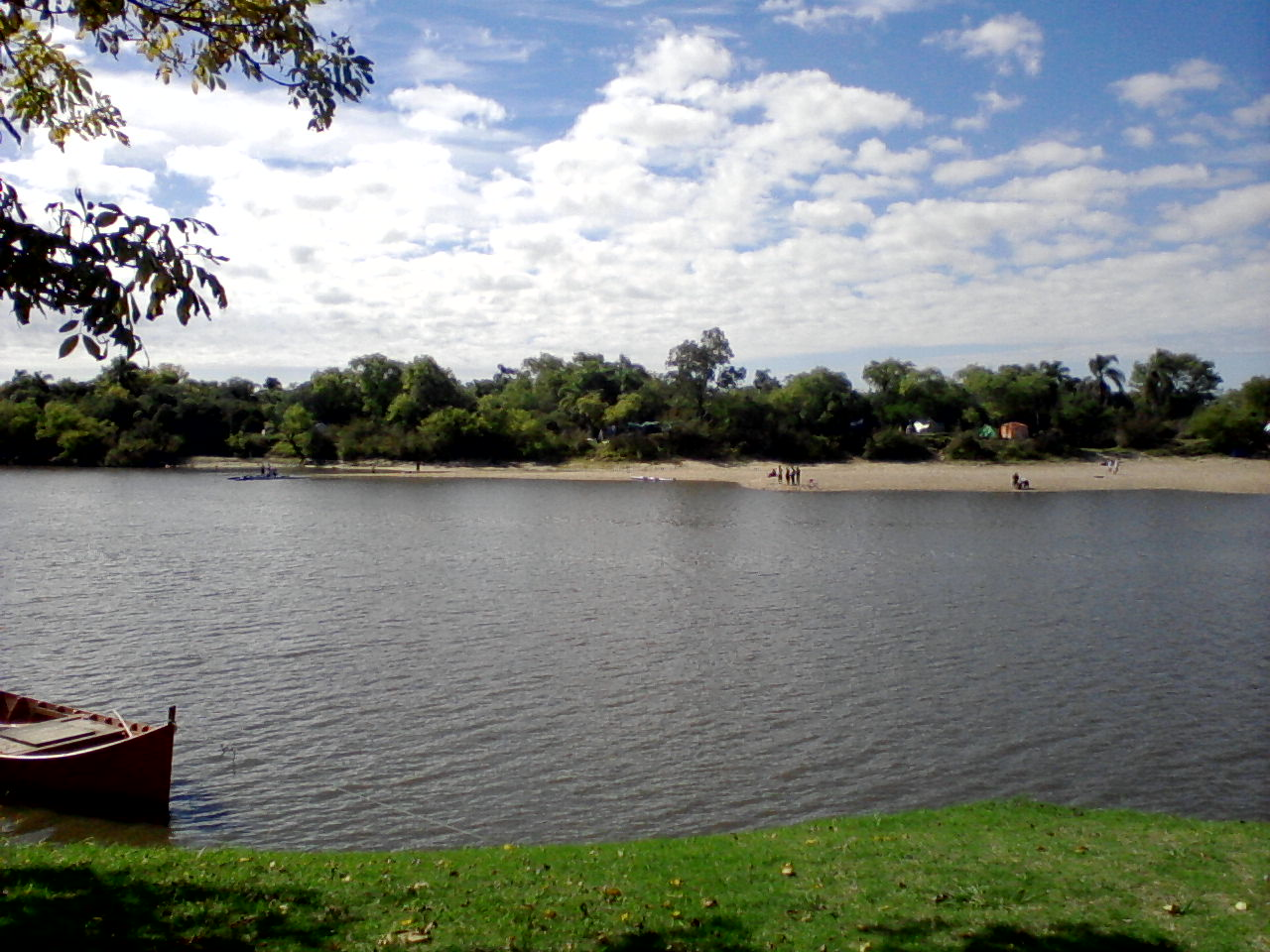 Río Cebollatí at Charqueada (General Enrique Martínez), Treinta y Tres, Uruguay.